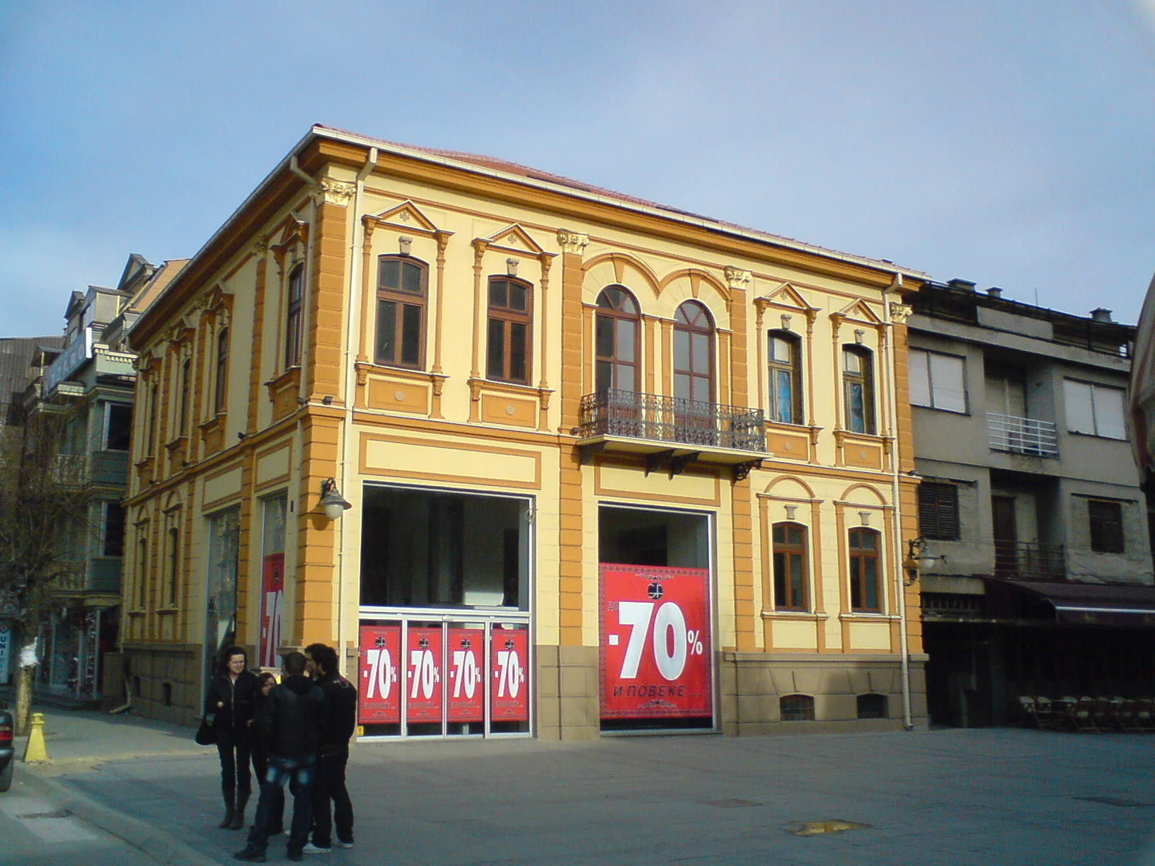 The boutique Gruppo Fiori in Bitola